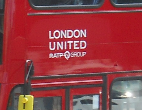 Paris transport in London - detail of a London United bus, showing the logo of the RATP Group after their acquisition of the bus company in 2009.